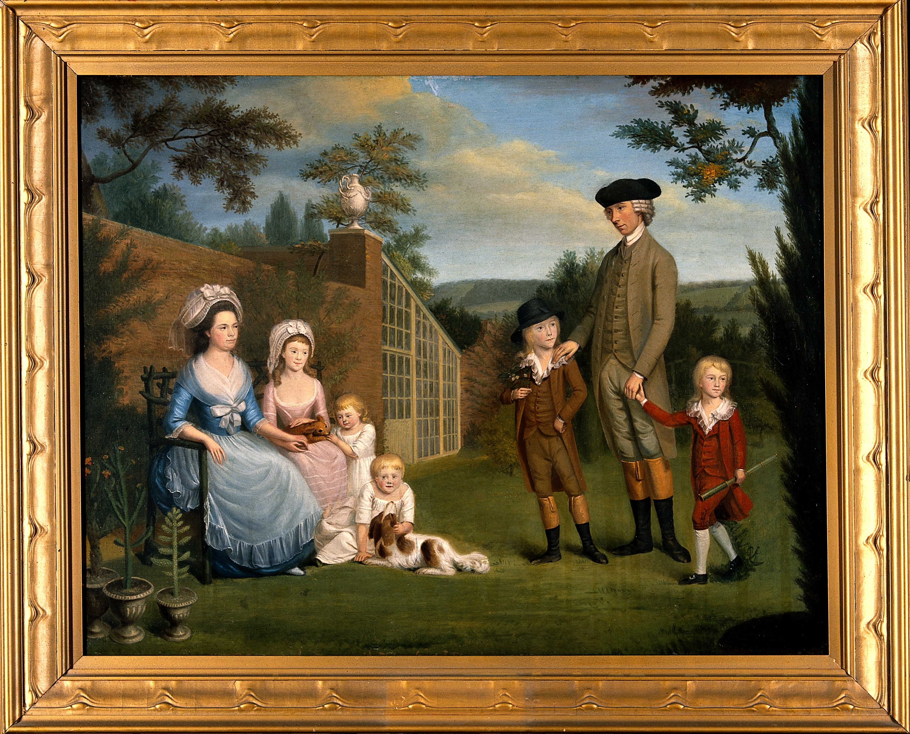 John Coakley Lettsom (1733-1810), physician, with his family, in the garden of Grove Hill, Camberwell, ca. 1786. Oil painting by an English painter, ca. 1786. Iconographic Collections Keywords: Ann Miers Lettsom; John Miers Lettsom; Pickering Lettsom; Eliza Lettsom; Edward Lettsom; Mary Anne Lettsom; Samuel Fothergill Lettsom; John Coakley Lettsom Left to right: Ann Miers Lettsom (wife of John Coakley Lettsom), Mary Ann Lettsom, Eliza (?) Lettsom (so identified by Abraham, though having been born in November 1785 she seems to have been too young: Edward Lettsom, b. 1781, seems more likely), Pickering Lettsom, John Miers Lettsom, John Coakley Lettsom, and Samuel Fothergill Lettsom